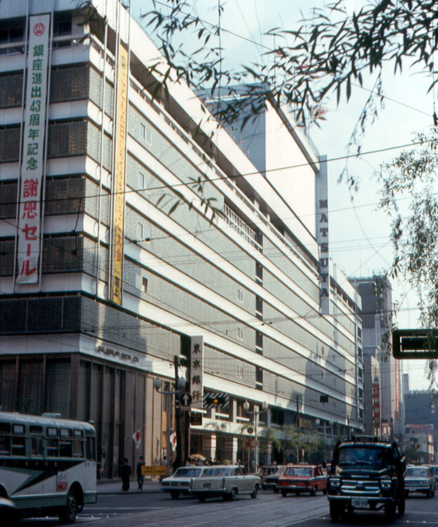 Matsuya department store, on Chuo Dori in the Ginza district of Tokyo. I went into two or three stores, and Matsuya was my favorite. In 1967, the department stores in Tokyo all had roughly the same layout, including an entire floor for kimonos and other traditional clothing.